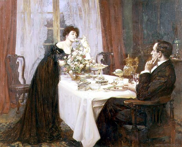 Elizabeth Barrett Browning - The Anniversary: "I love thee to the level of everyday's most quiet need"